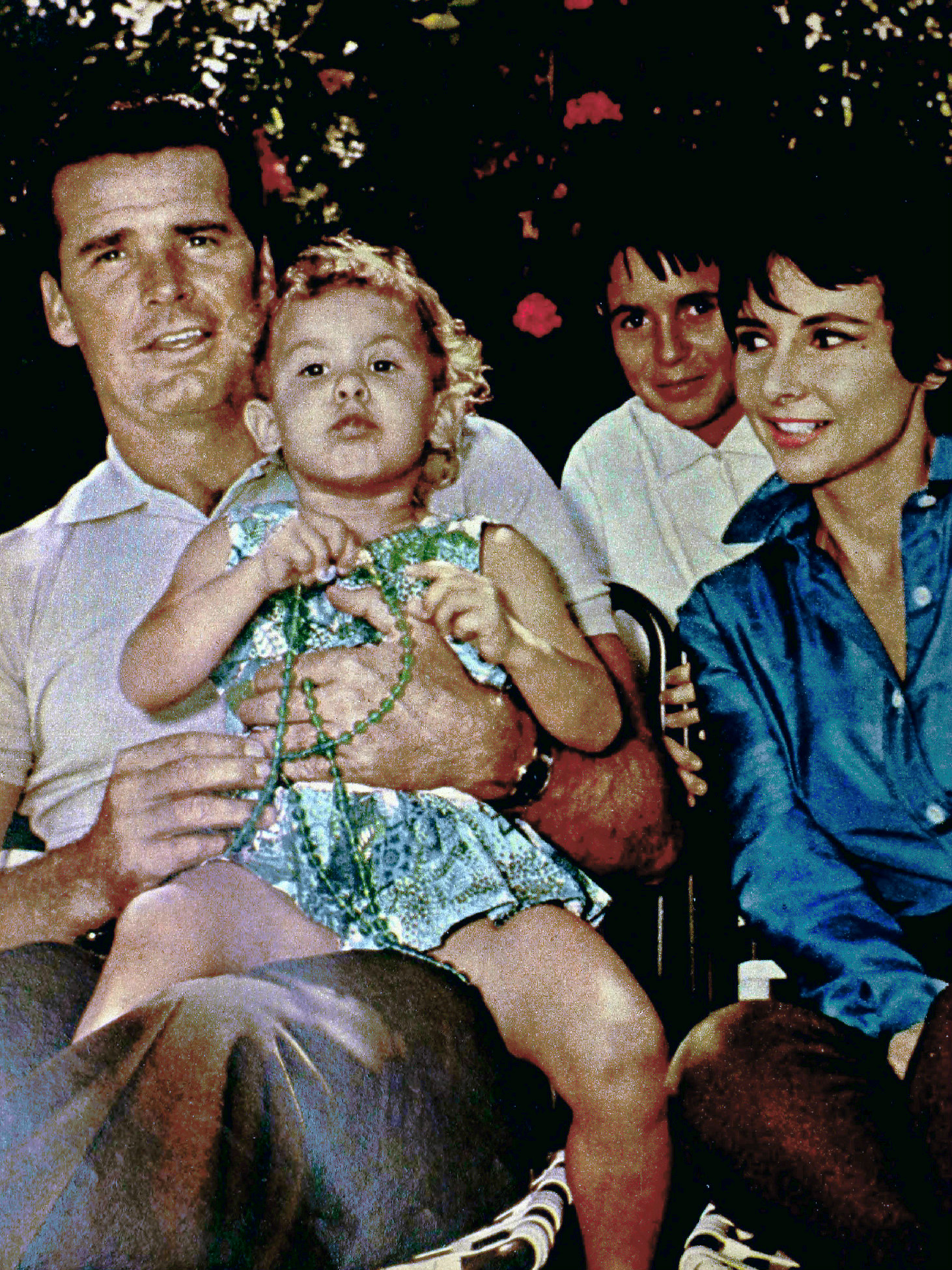 Photo of James Garner and his family. Daughter Greta is on Garner's lap and daughter Kim is looking out between Garner and his wife, Lois.